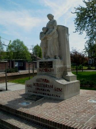 The monument aux morts at Hangest-en-Santerre. A sculpture by Georges Legrand.